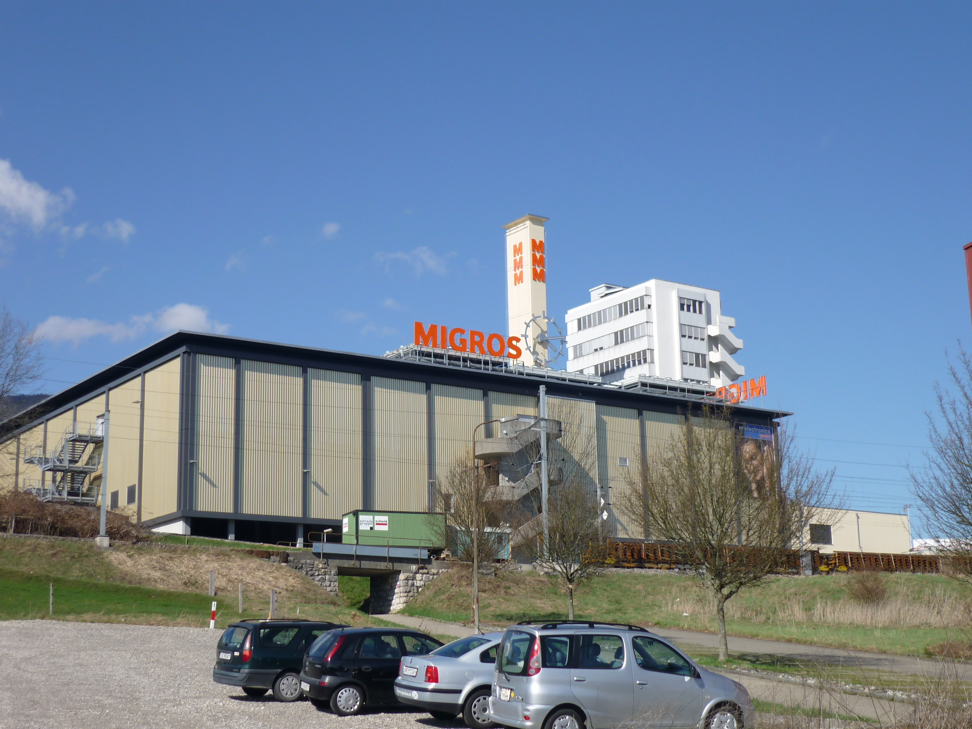 Migros shopping centre Ladendorf in Langendorf, Canton of Solothurn, Switzerland. The building was formerly part of the factory of the watch making company Lanco which closed in 1973. Since 1977, it is used for the shopping centre, extensively modernised and enlarged in 2008-2010.